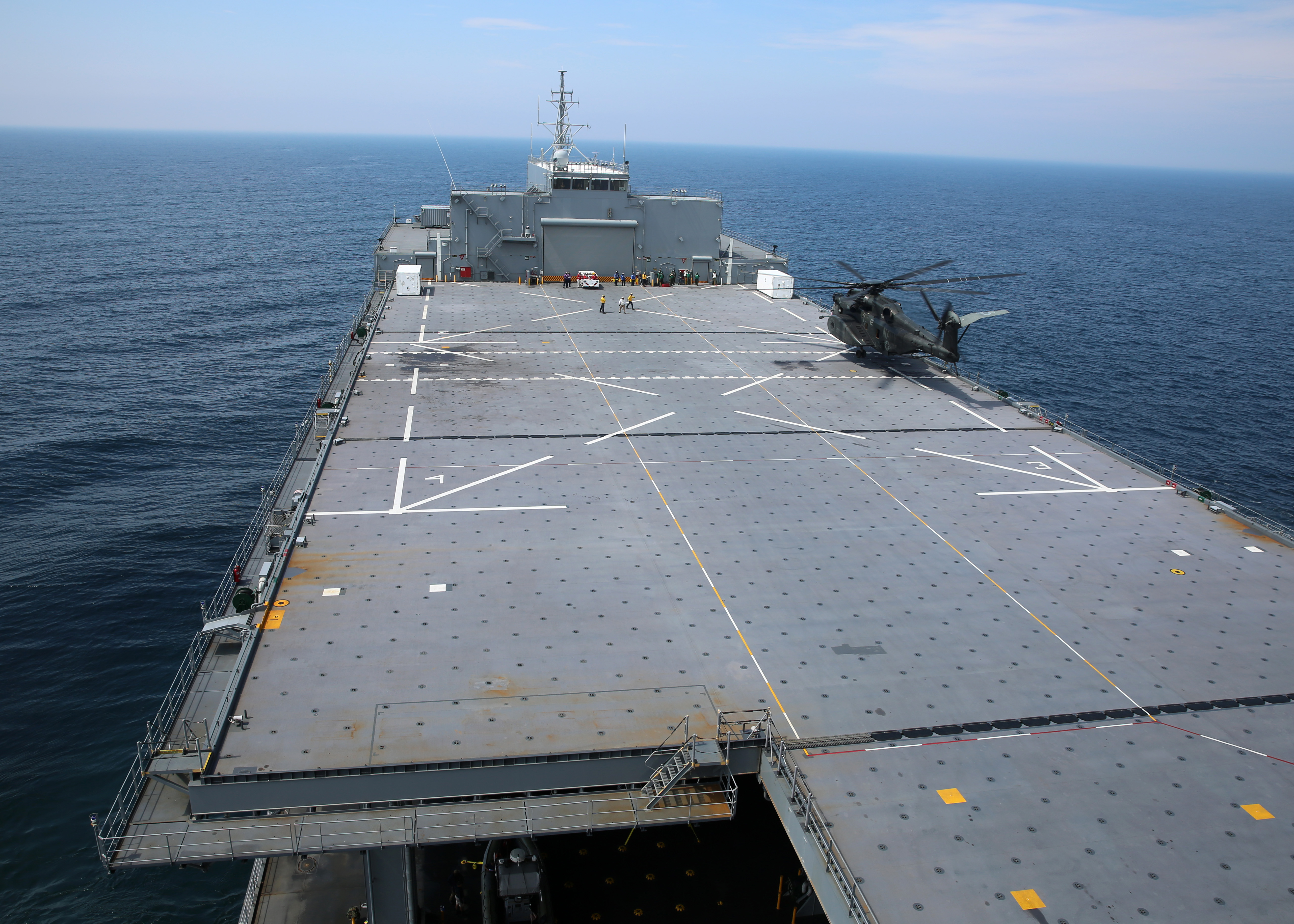 A U.S. Navy Sikorsky MH-53E Sea Dragon helicopter attached to Helicopter Mine Countermeasures Squadron 15 (HM-15) lands on the flight deck of Military Sealift Command's expeditionary mobile base, USNS Lewis B. Puller (T-ESB-3). Sailors from HM-15 worked in concert with sailors and Civil Service mariners serving aboard Puller on a four-day Airborne Mine Countermeasure Deployment training exercise in the Atlantic Ocean.